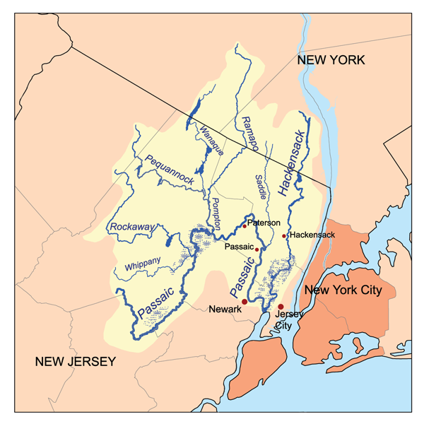 This is a map of the Passaic/Hackensack watershed. I, Karl Musser, created it based on USGS data.